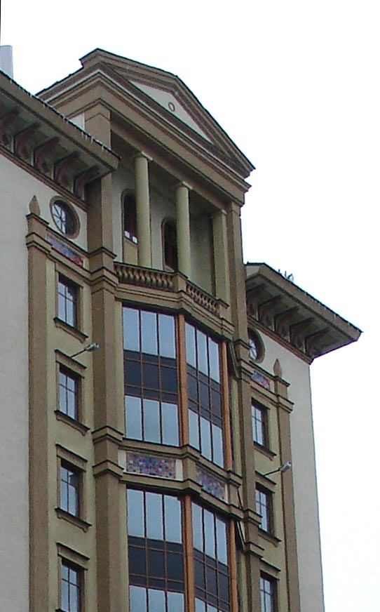 Systema-GALS tower, Moscow, Tverskaya street